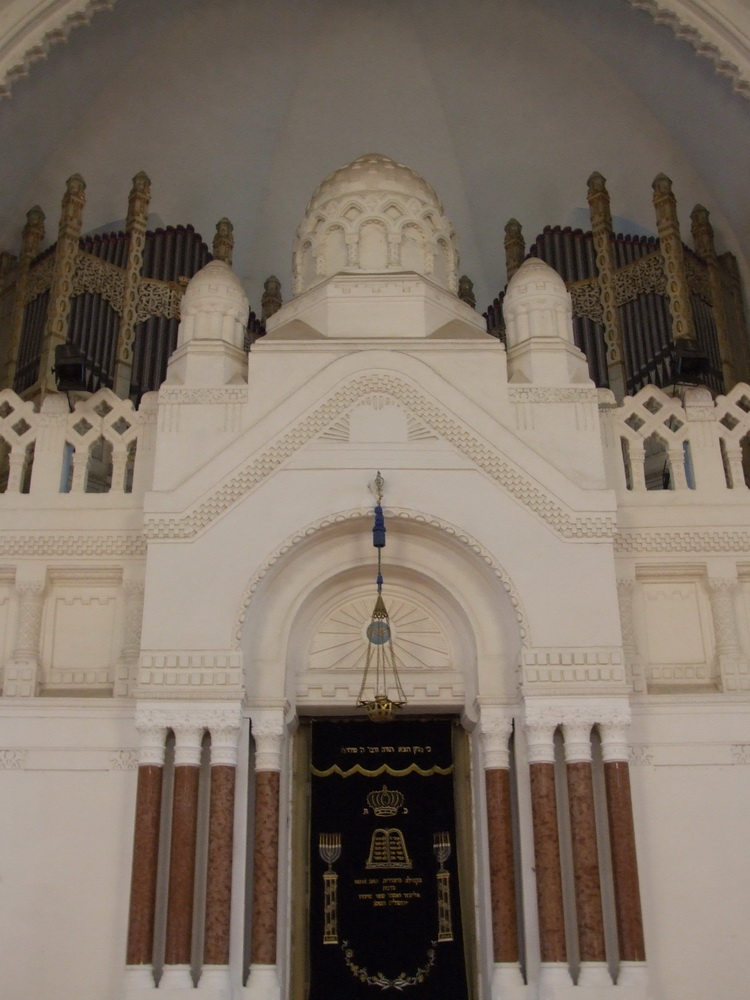 Aron HaKodesh of the Synagogue of Novi Sad